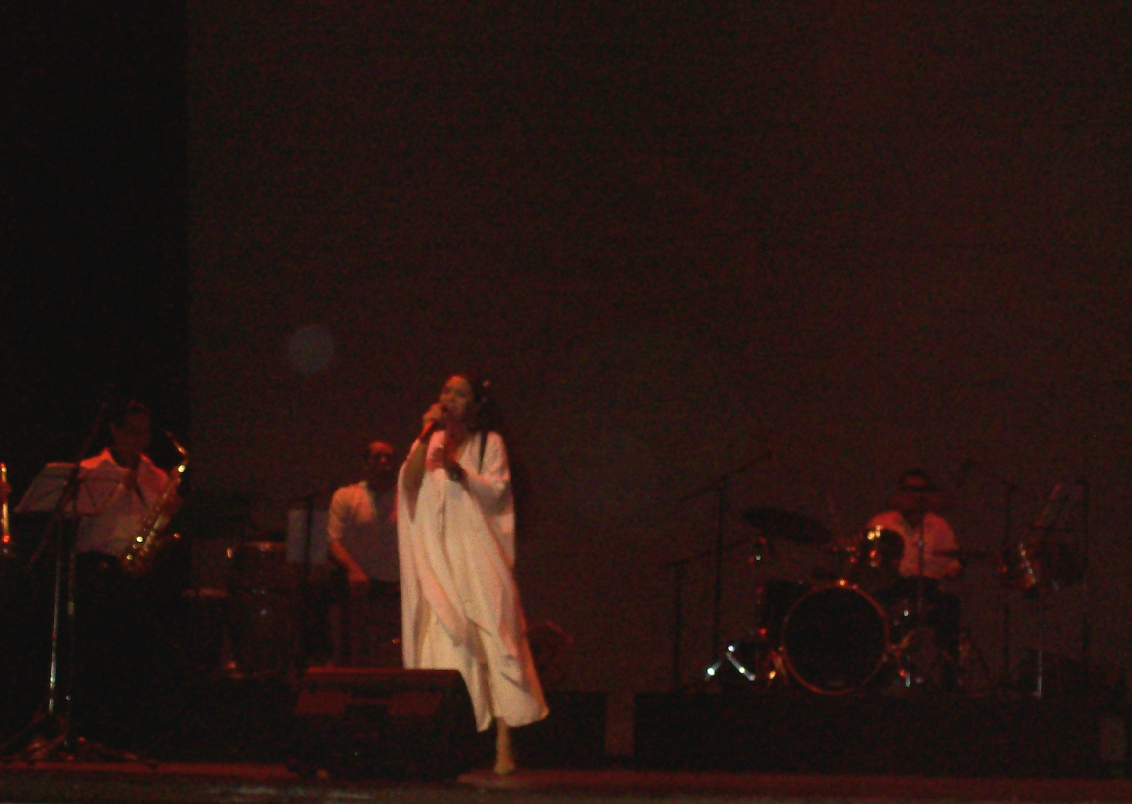 In Concert in the Macedonio Alcala Teather in 28th. of october of 2009. Guadalajara Jalisco, México